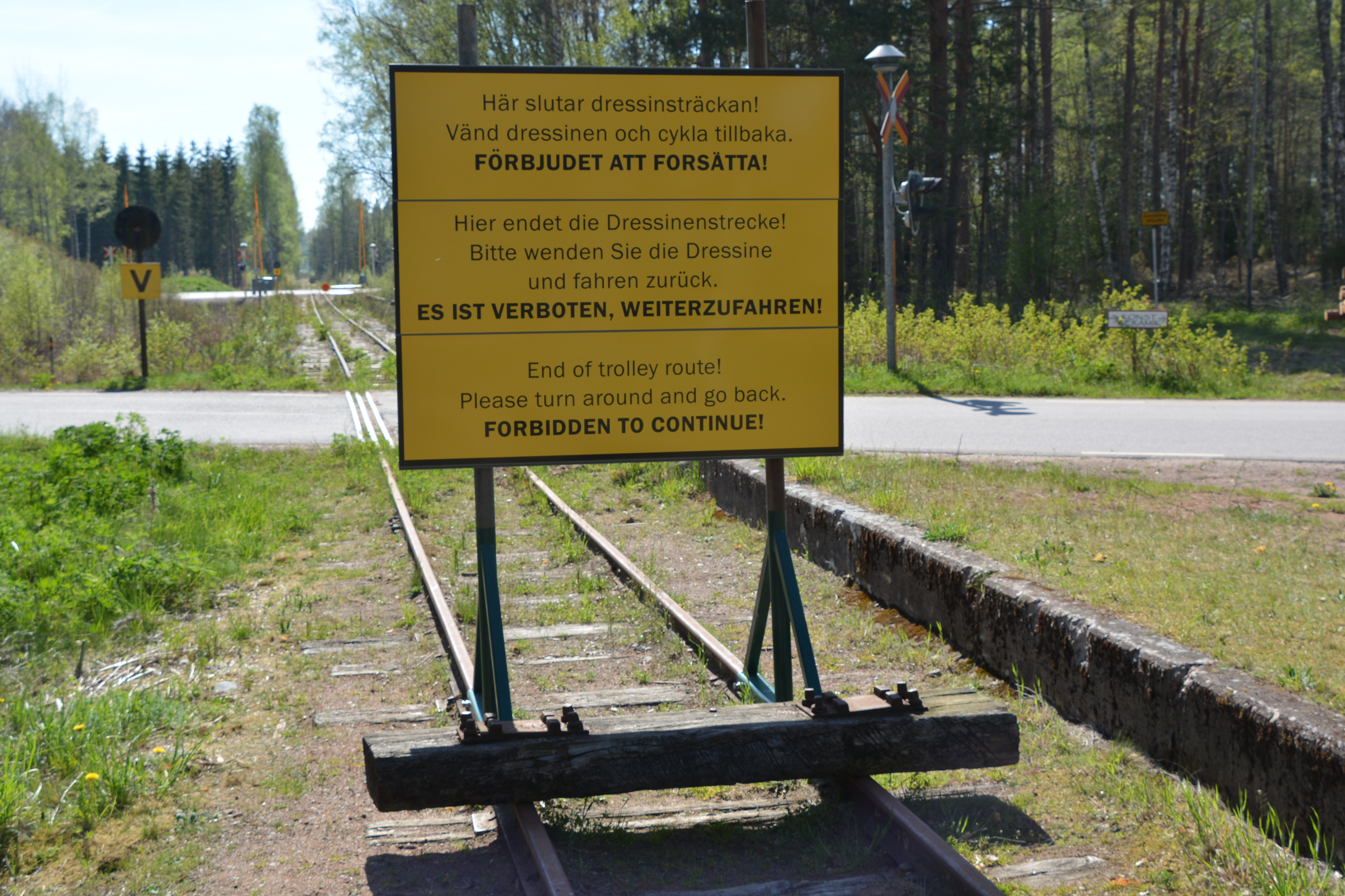 Målilla sanatoriums hållplats, Målillla. Skylt för slutpunkt för dressingåkning från Hultsfred (2017).